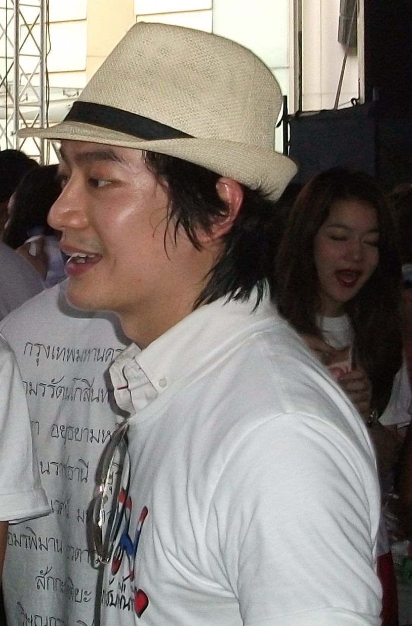 Smith Arrayasagul at Parc Paragon, Siam Paragon, Bangkok.